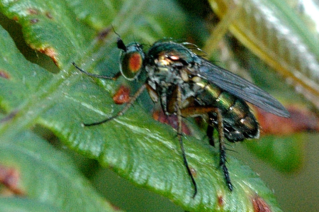 Picture taken in Commanster, Belgian High Ardennes . Species: Dolichopus ungulatus